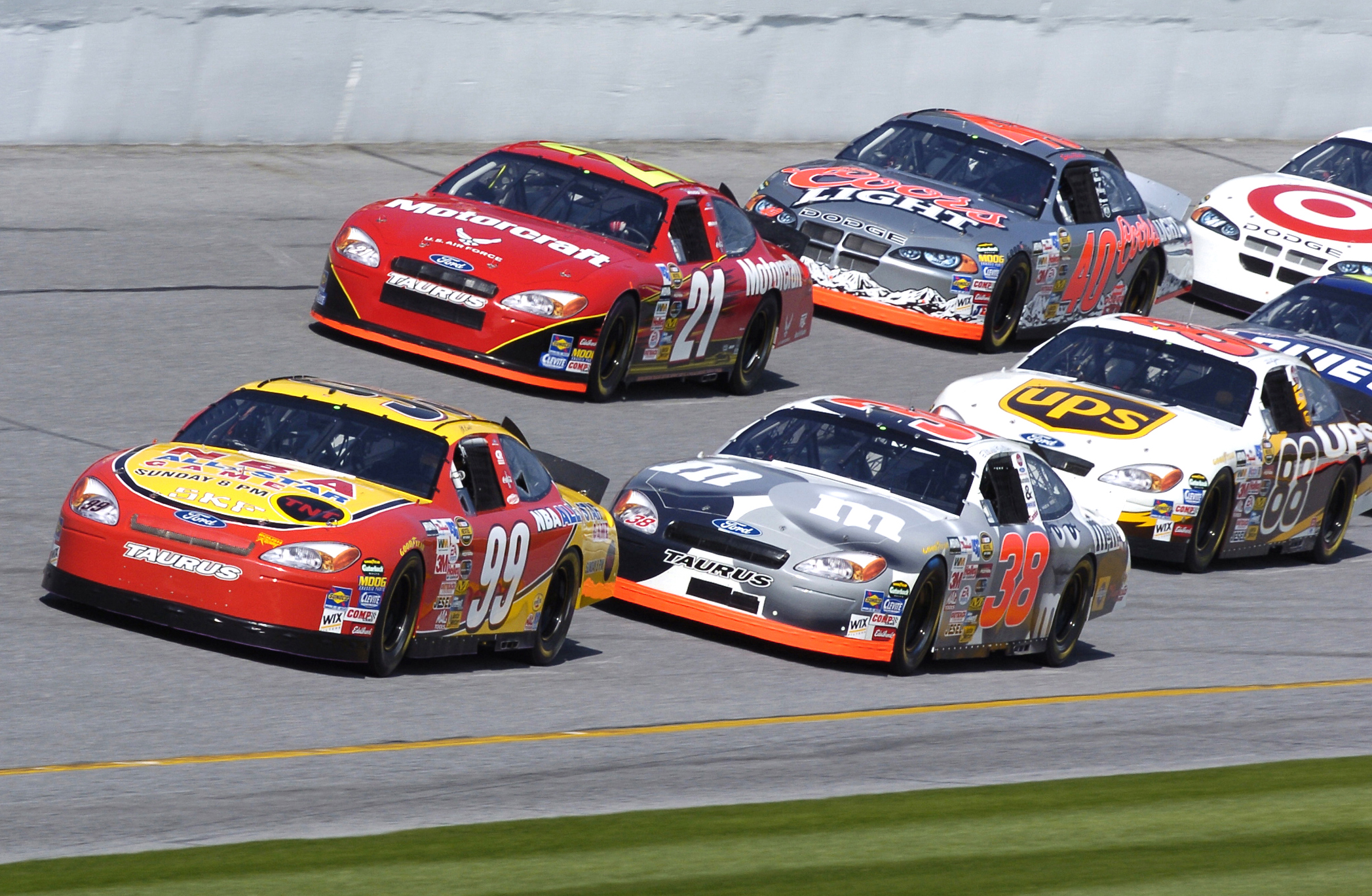 DAYTONA INTERNATIONAL SPEEDWAY, Fla. -- The Air Force Ford-sponsored Wood Brothers No. 21 Ford Taurus, driven by Ricky Rudd, is shown here during a practice run Feb 11. He is preparing for the Daytona 500 race, which will be held here Feb. 15. (U.S. Air Force photo by Larry McTighe)